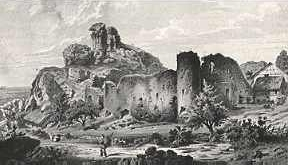 Castle Hunolstein (presently Morbach, Bernkastel-Wittlich, Rhineland-Palatinate)